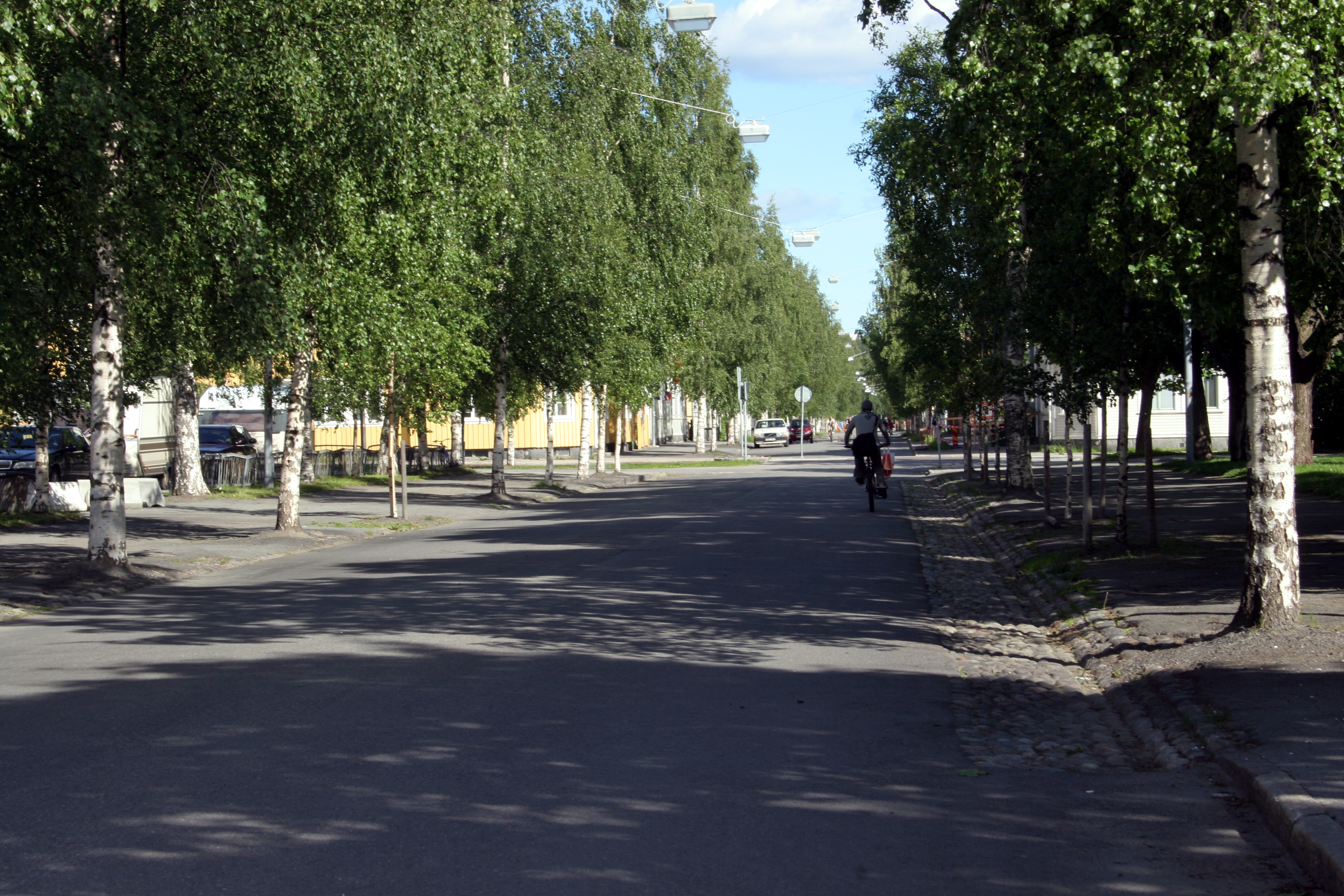 Kungsgatan in Umeå, Sweden. Typical street of Umeå wuth birches planted along the sides of the street.